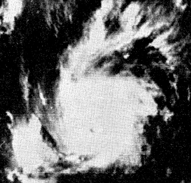 This NIMBUS II image of Typhoon Irma was taken midnight on May 15, 1966